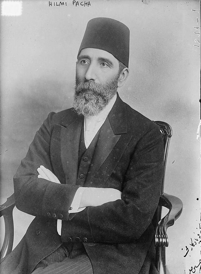 Hüseyin Hilmi Pasha (Ottoman Turkish: حسین حلمی پاشا, Hussein Hilmi Pasha) (1855 – 1922/1923)